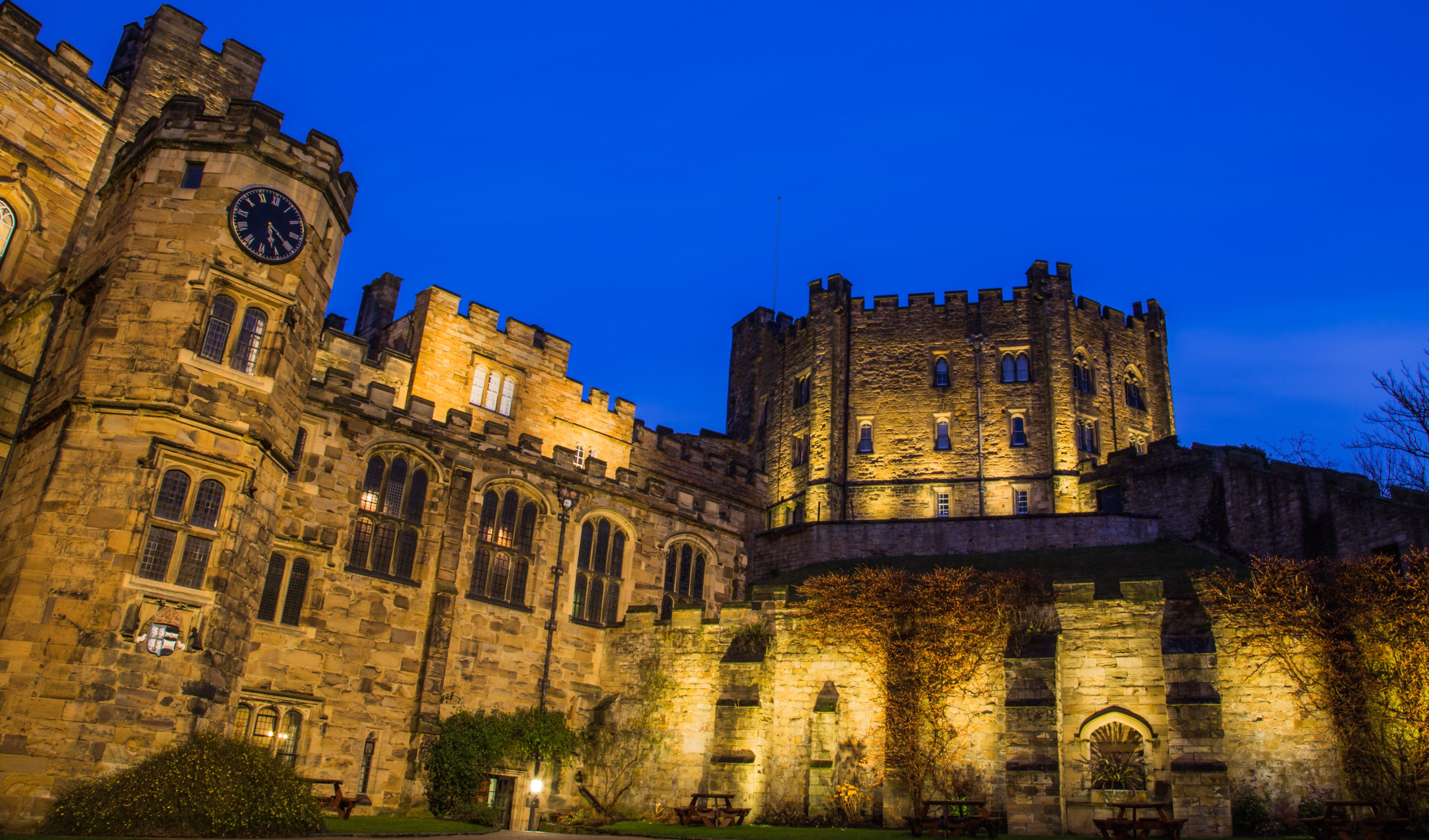 The Keep (university College) Wikidata has entry Q17529966 with data related to this item.